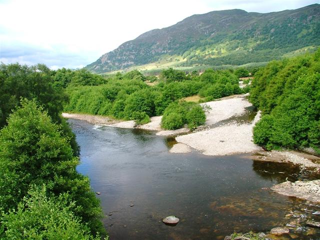 Confluence of the Rivers Spey and Calder.